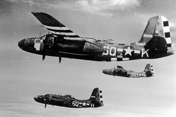 Douglas A-20Gs of the 647th Bombardment Squadron, 410th Bomb Group, based at RAF Gosfield, England. A-20G-35-DO Serial 43-10219 identifiable.